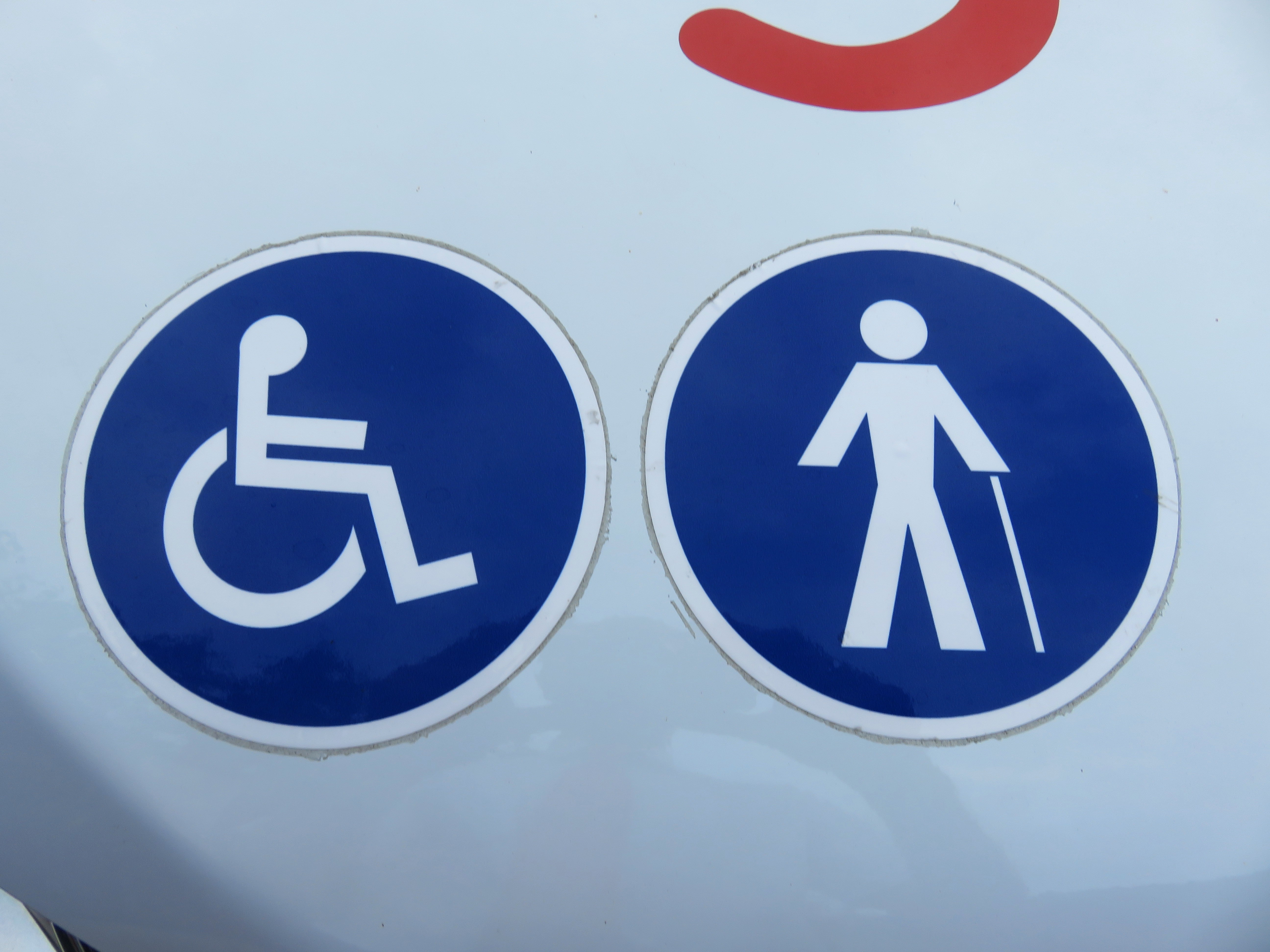 The accessibility symbols on a Dietrich City 29 (n°4 of the French agglomeration community Rumilly Terre de Savoie).